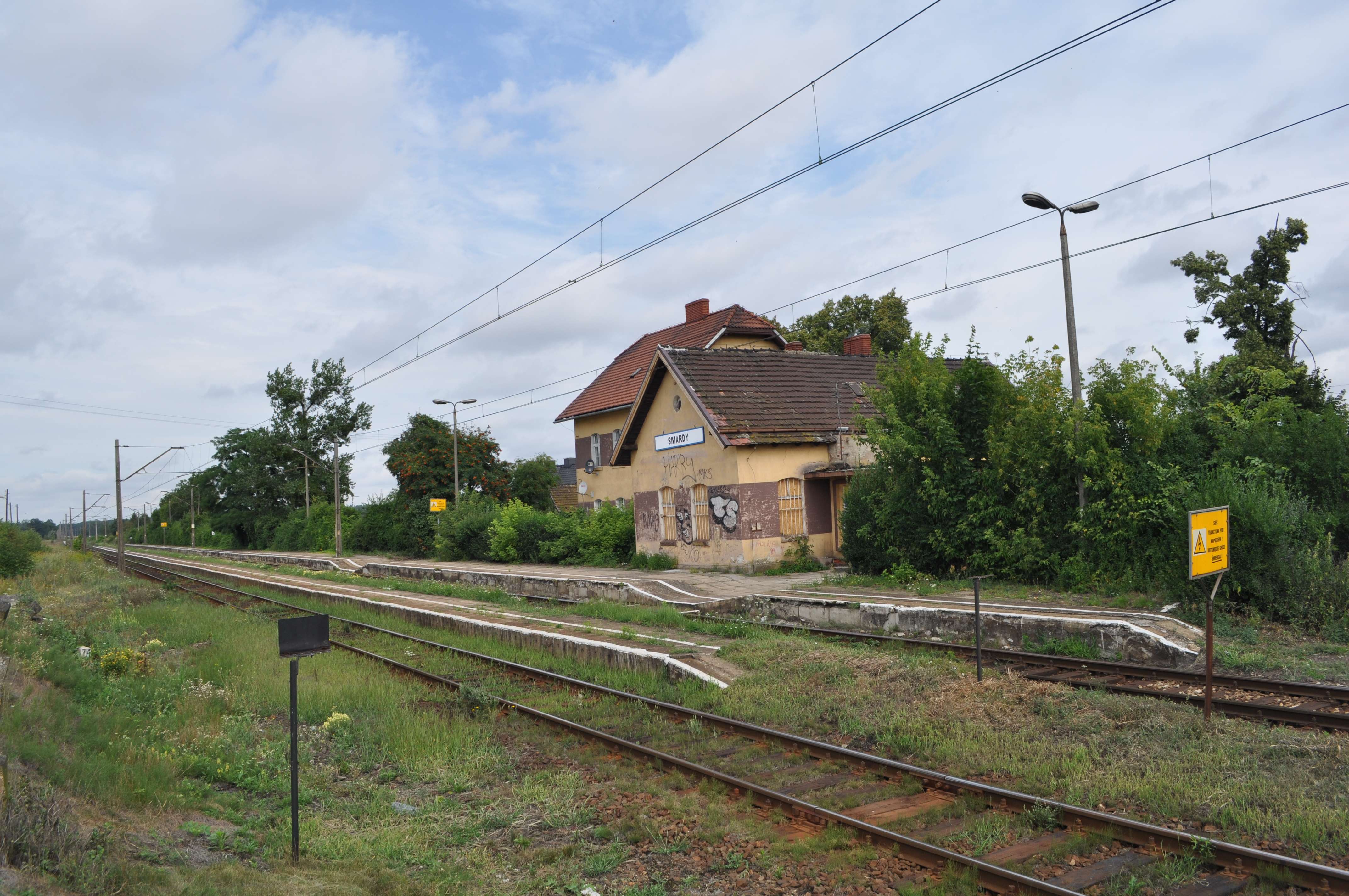 Train station Smardy